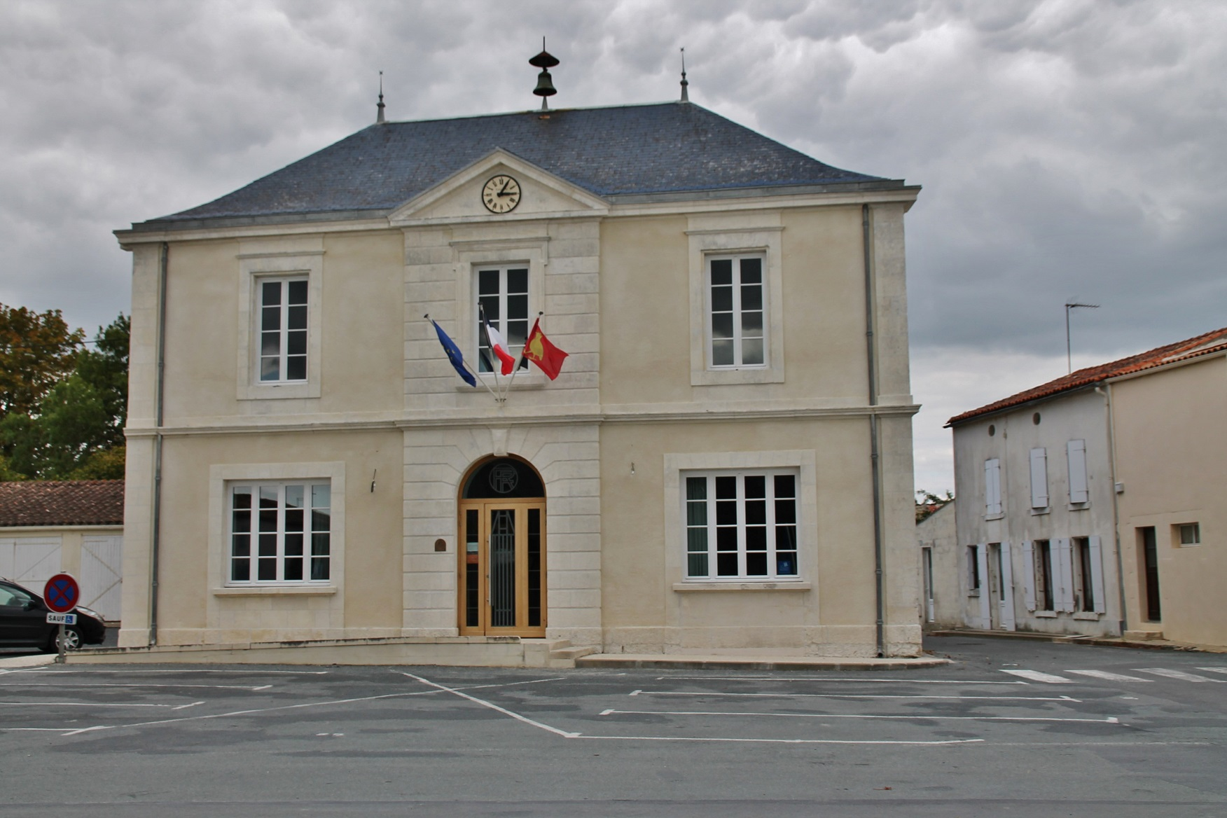 La Mairie